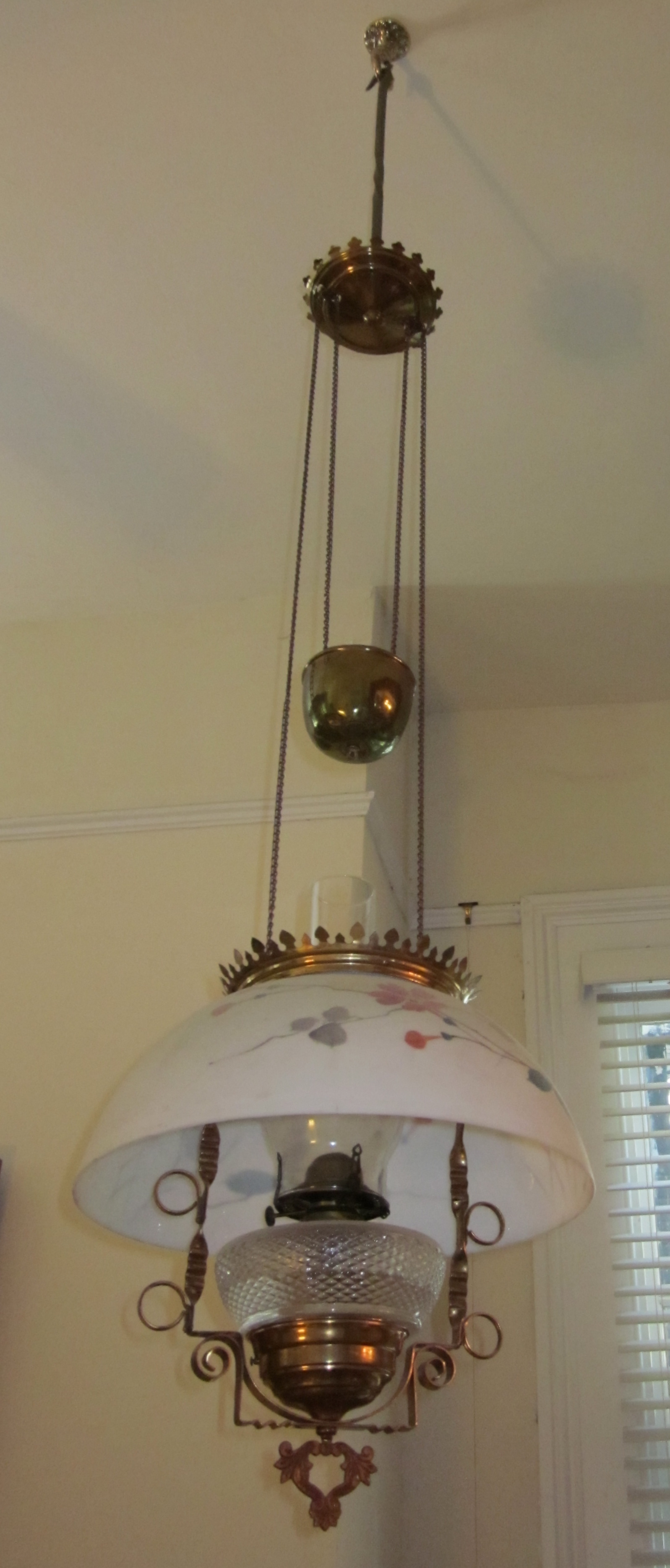 Early/mid 19th century height adjustable pendant oil lamp. Brass fixtures, painted glass shade. Chain and counterweight allow it to raised and lowered. Now used as paraffin lamp; originally probably intended to be fueled with whale oil.